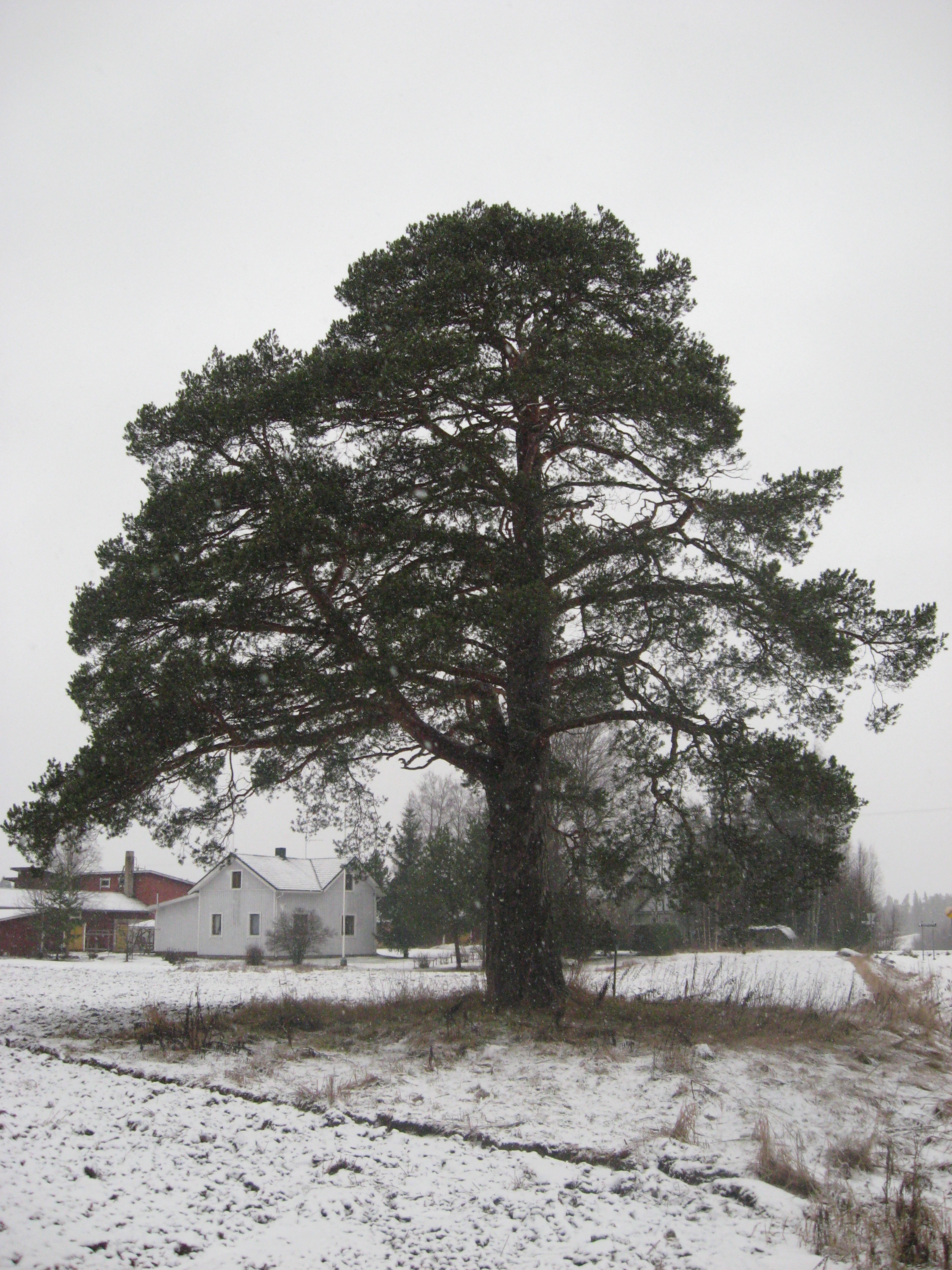 Thickest tree (Pinus sylvestris) of Jalasjärvi, Finland.